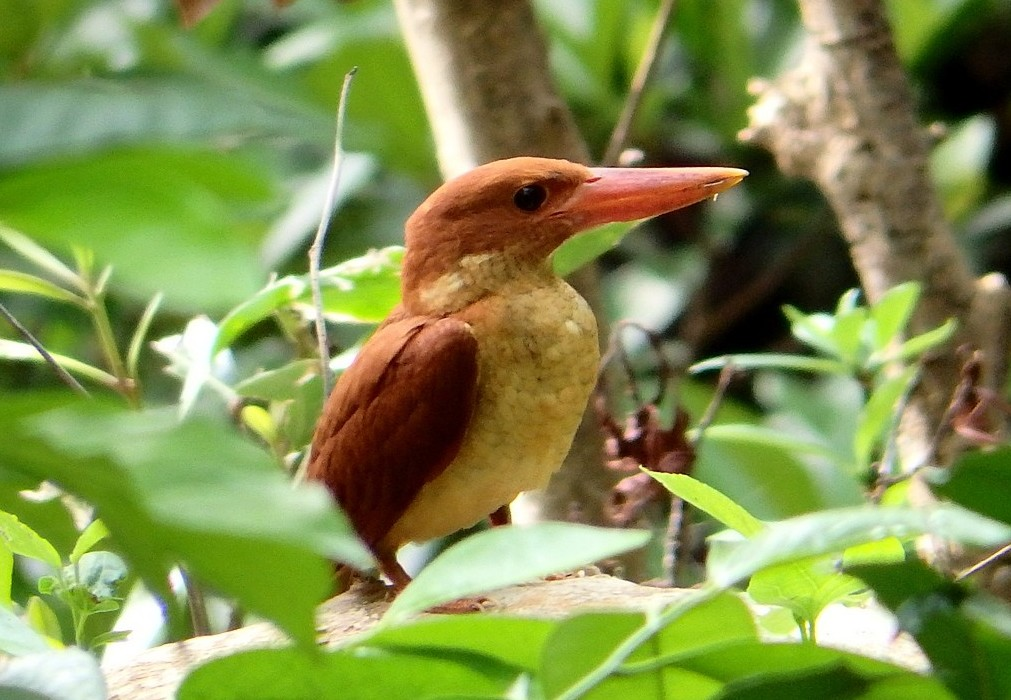 赤翡翠 Halcyon coromanda Ruddy Kingfisher, Taipei, Taiwan